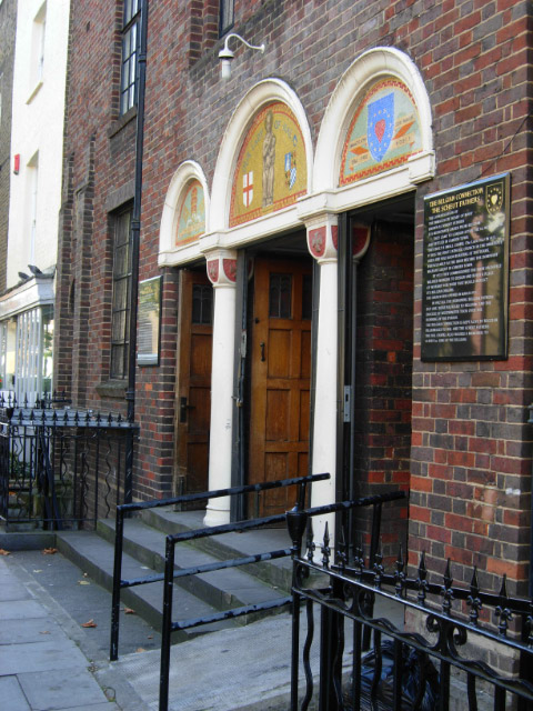 Our Lady of Hal Catholic Church, Camden Town The story behind the dedication of this Roman Catholic church on Arlington Road is told here: .